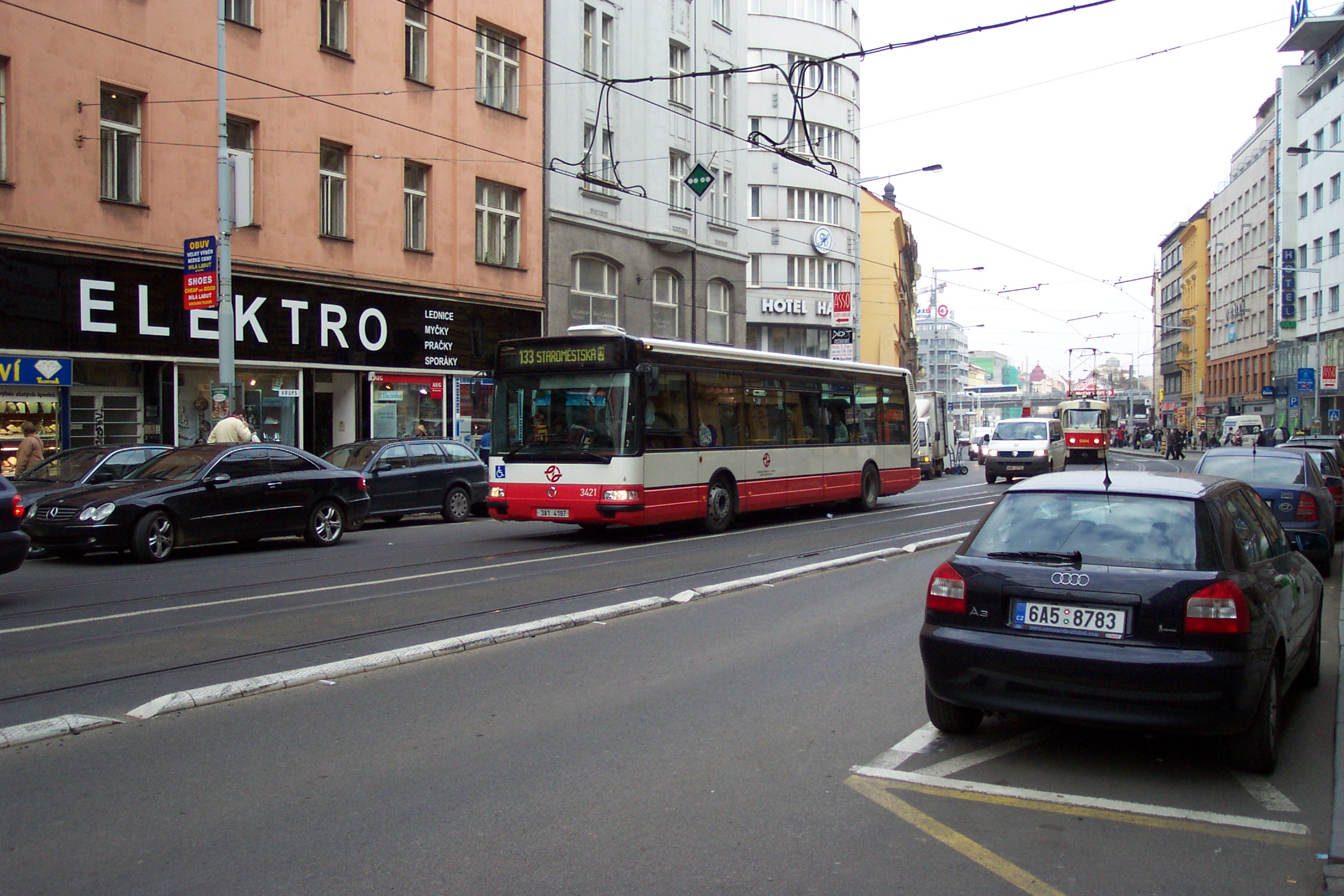 Bus type Irisbus Citybus on special line in the Prague center